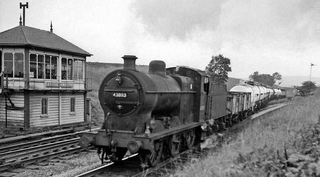 Settle Junction, with Up ammonia tank empties. View northward beside the signalbox, with ex-Midland 4F 0-6-0 No. 43893 bringing the Heysham - Billingham empties train off the Morecambe/Carnforth line and joining the Settle - Carlisle main line. The train will proceed via Leeds, Harrogate or York and Northallerton.